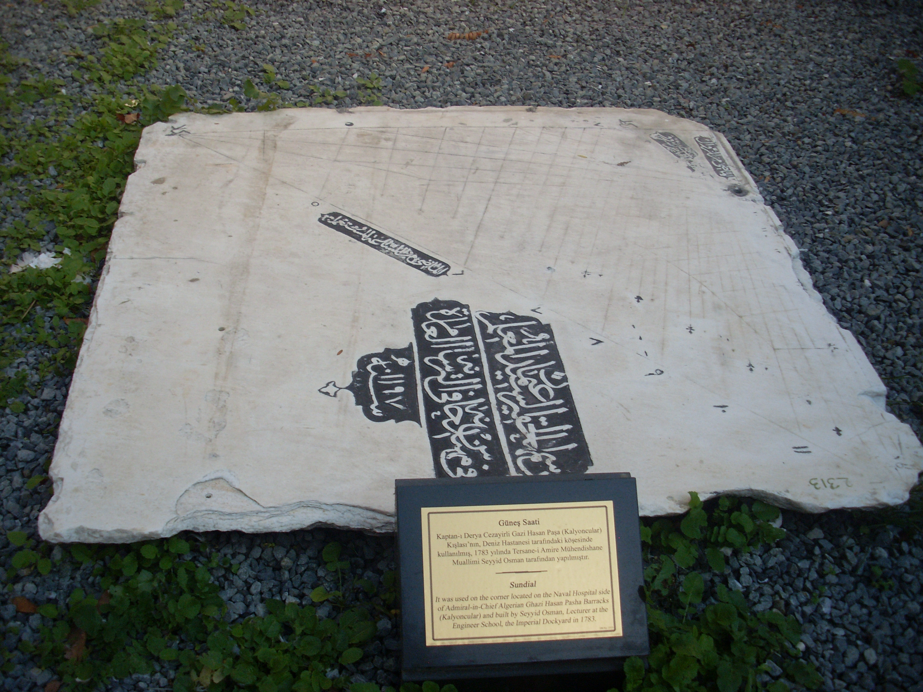 Sundial at Istanbul Naval Museum